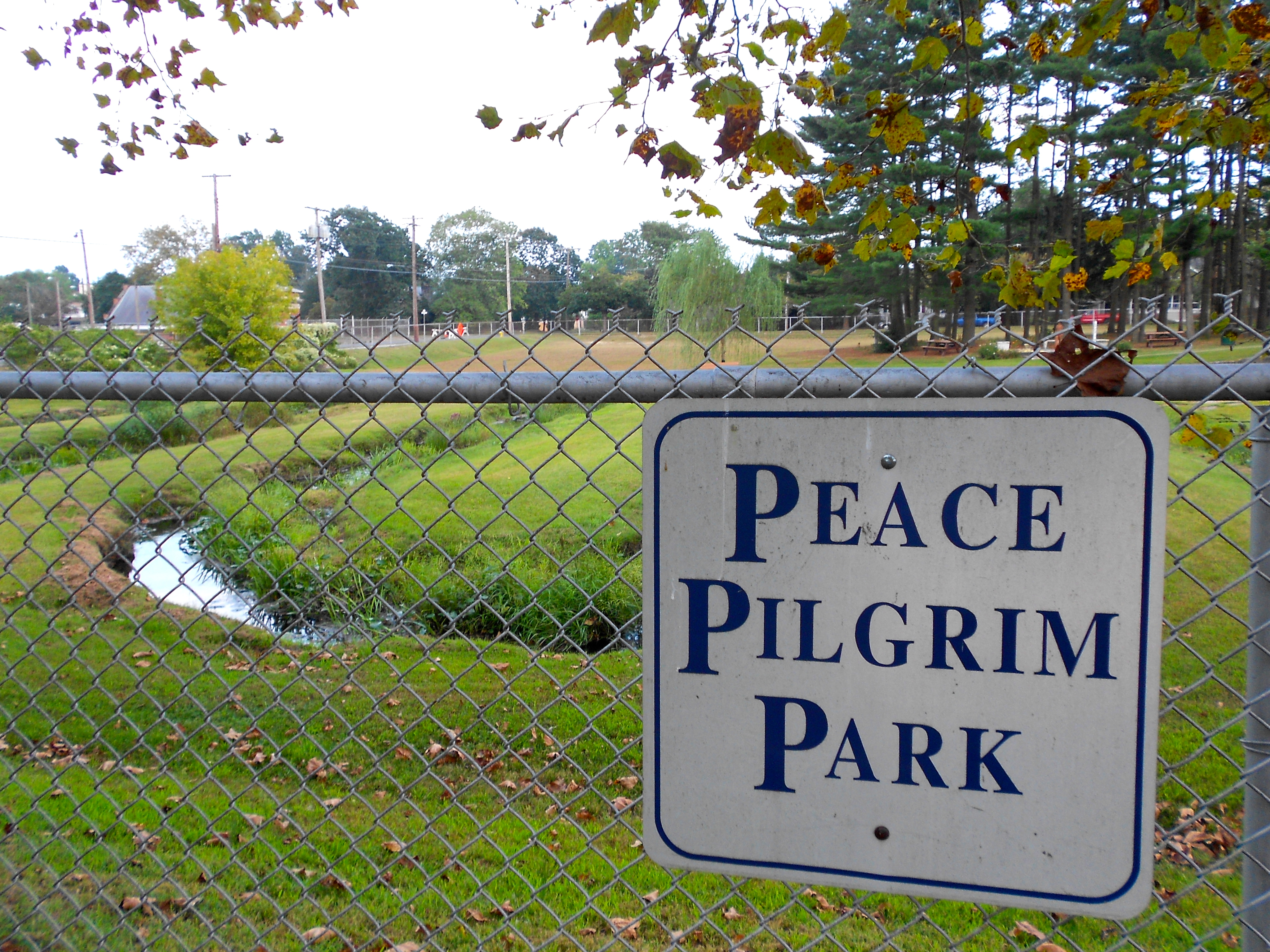 Neutral Water Health Resort Sanitarium Peace Pilgrim Park,in Egg Harbor City, New Jersey, named after Peace Pilgrim who was born nearby. It occupies the site of the focal point of the sanitarium, the "Serpentine Creek" in the background